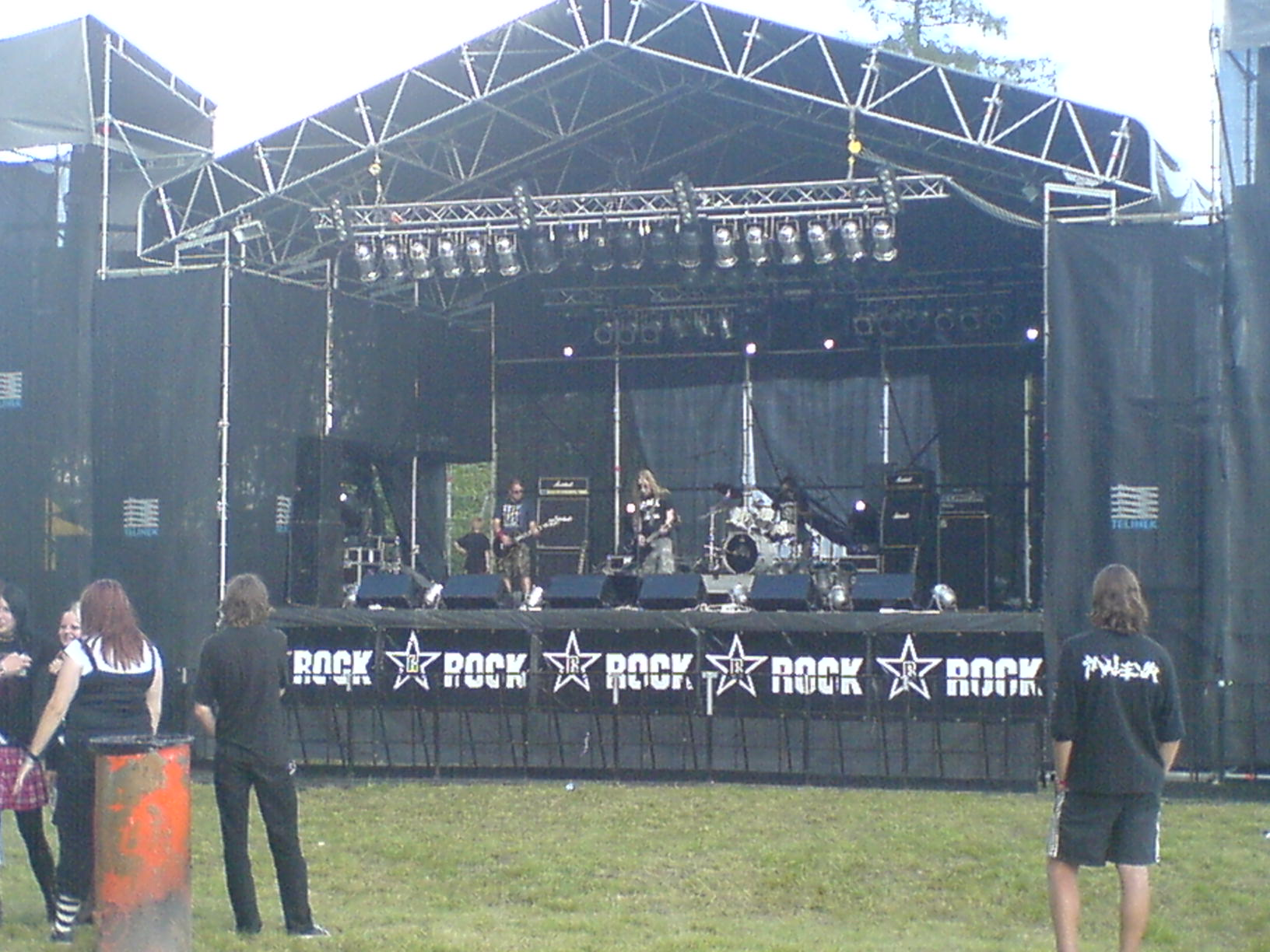 The main stage at Hard Rock Laager 2006.